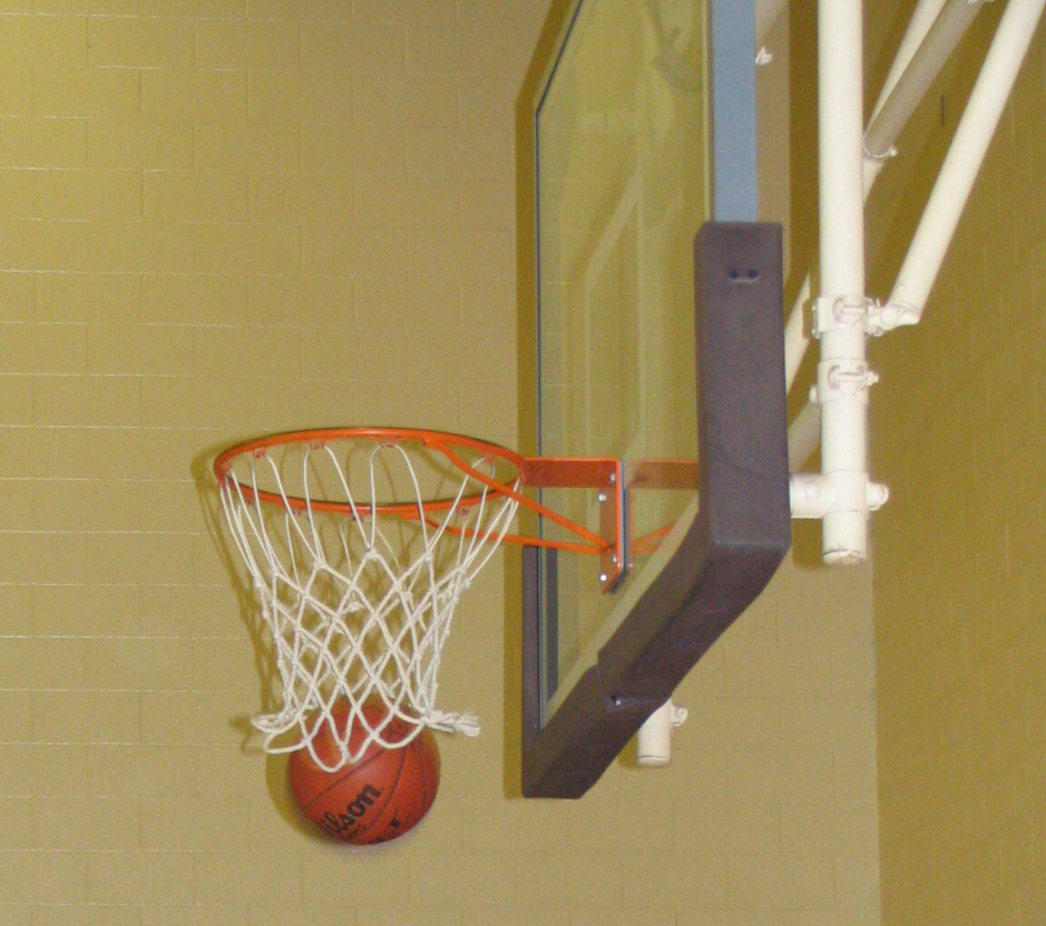 Shot of a basketball going through the hoop.